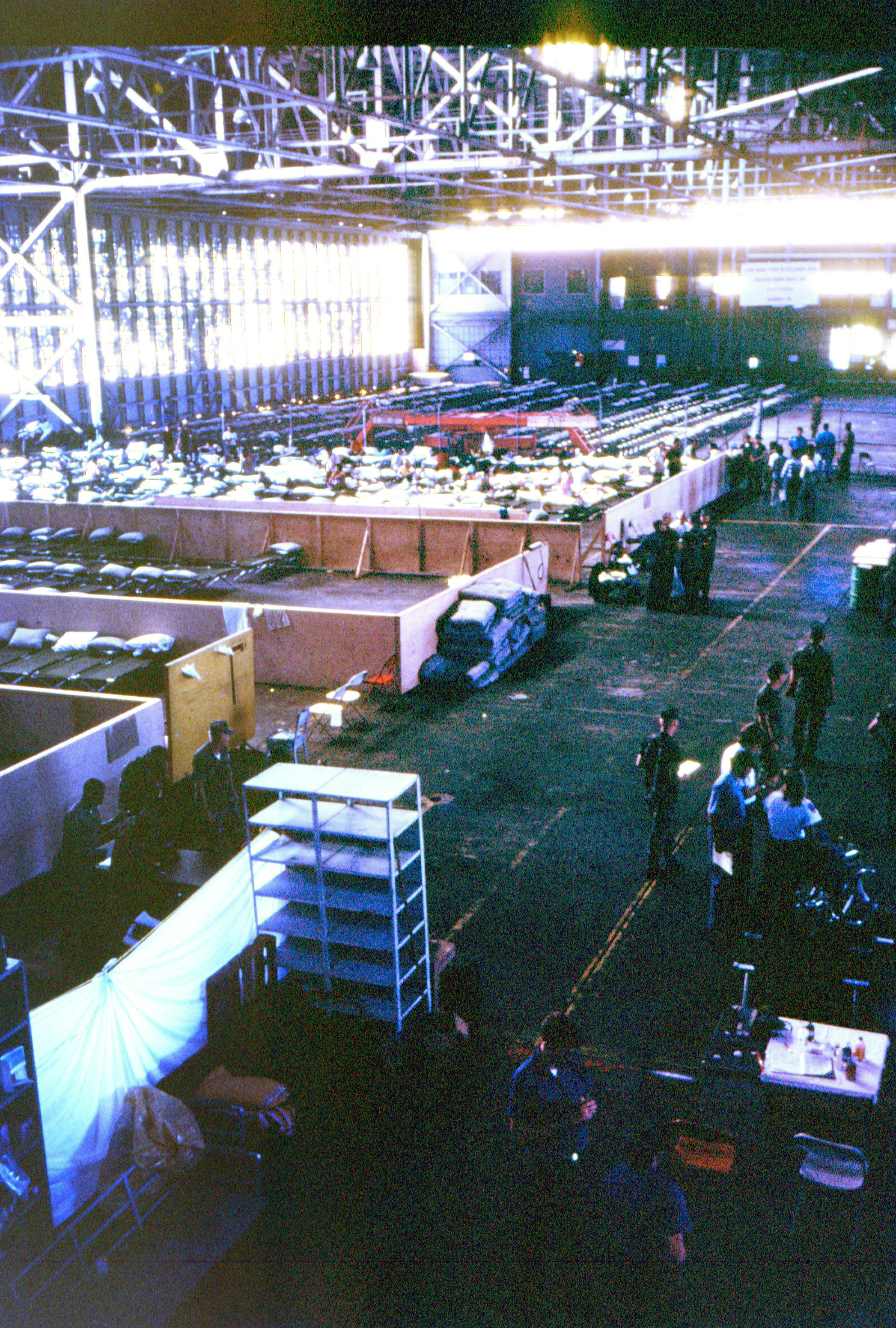 Cuban refugee center in the hanger on Trumbo Point in May 1980. Photo by Raymond L. Blazevic.